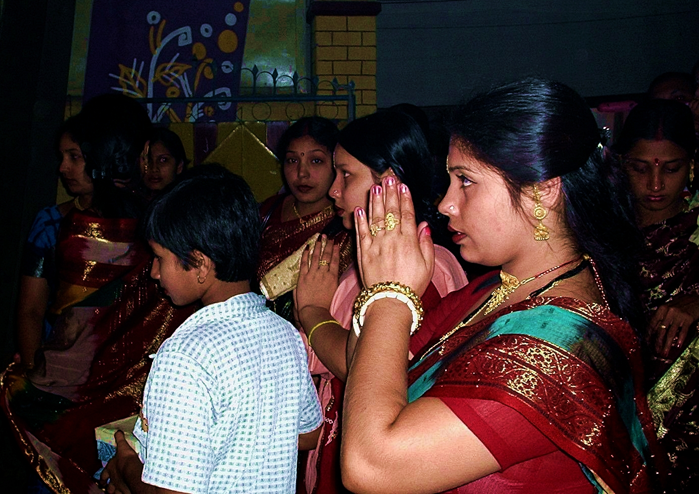 People praying during Durga puja. Original title: Prayer in Bangladesh